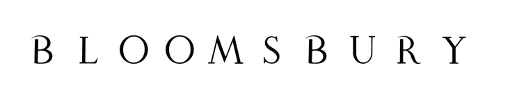 Bloomsbury Publishing logo